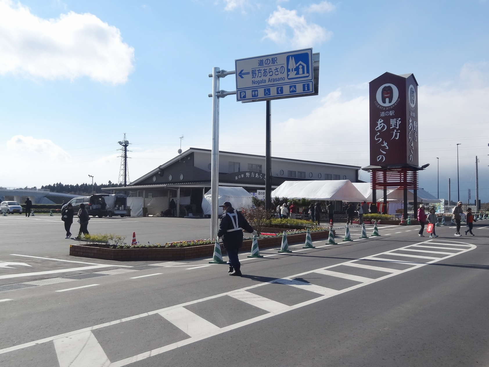 Michinoeki Nogata Arasano in Osaki Town, Kagoshima Prefecture, Japan